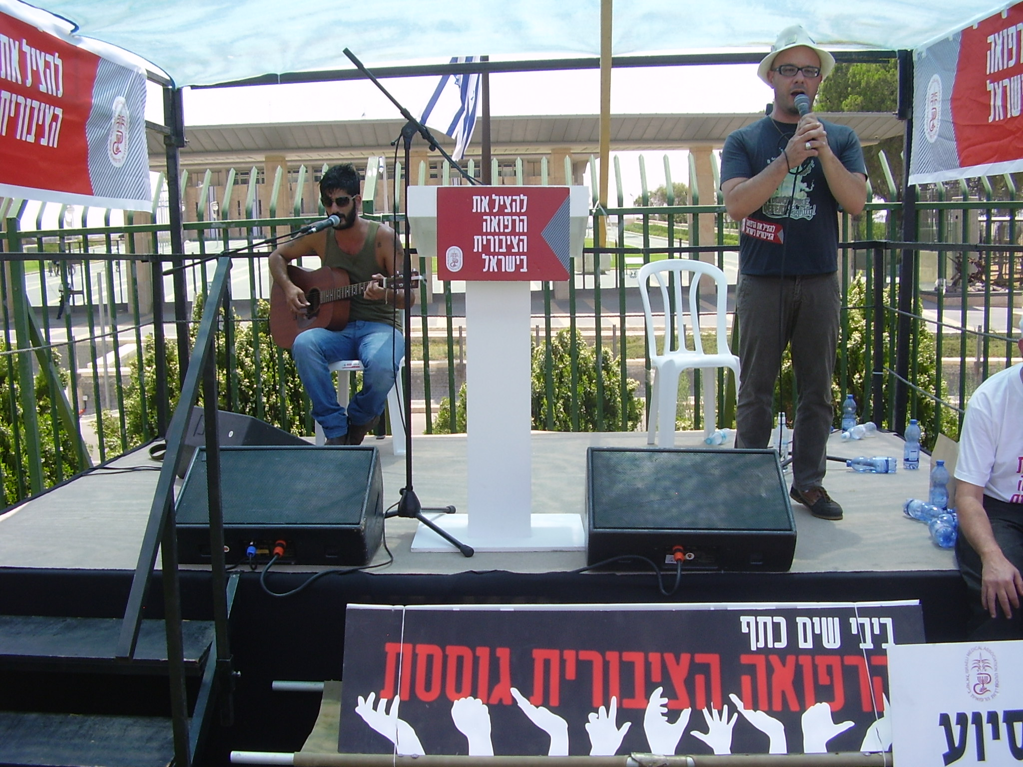 Doctors Protest in Jerusalem-the singer Kobi Oz